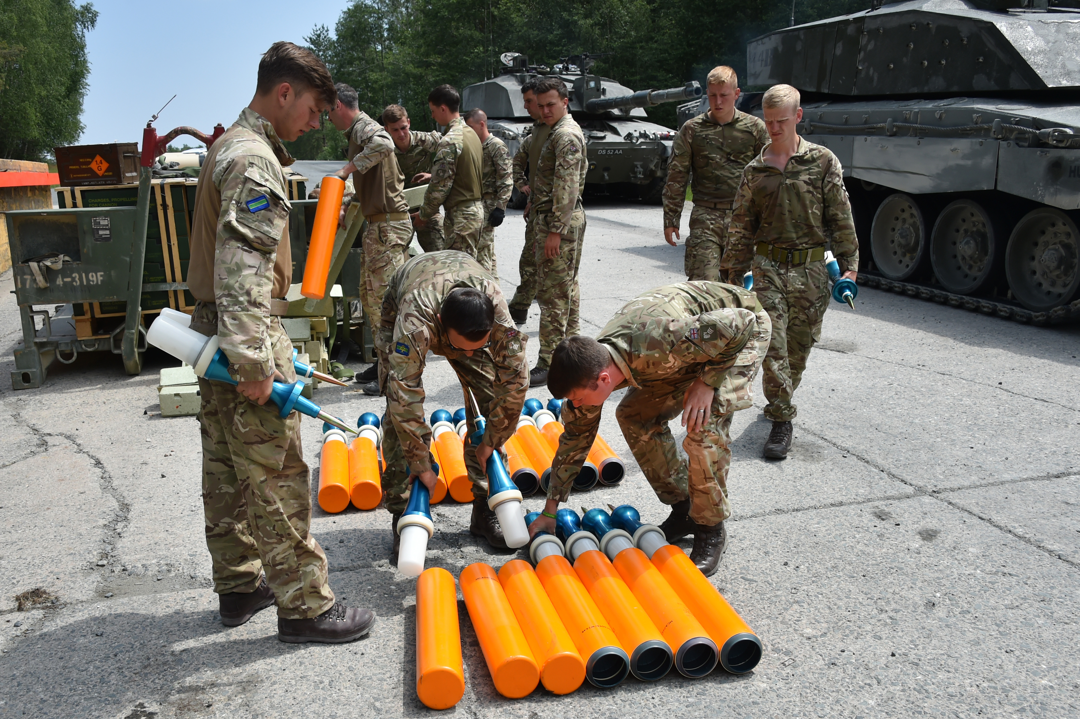 British soldiers with the Queen’s Royal Hussars receive ammunition for their Challenger II main battle tanks for the defensive operations lane during the Strong Europe Tank Challenge, June 7, 2018. U.S. Army Europe and the German Army co-host the third Strong Europe Tank Challenge at Grafenwoehr Training Area, June 3 - 8, 2018. The Strong Europe Tank Challenge is an annual training event designed to give participating nations a dynamic, productive and fun environment in which to foster military partnerships, form Soldier-level relationships, and share tactics, techniques and procedures. (U.S. Army photo by Gertrud Zach)